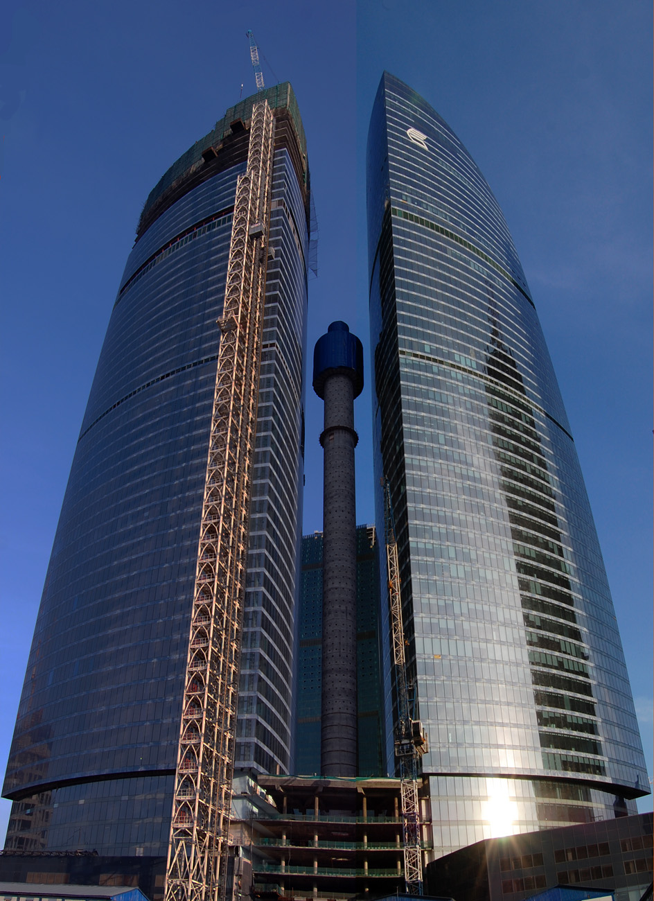 Federation Tower in Moscow-City on 28.03.2010